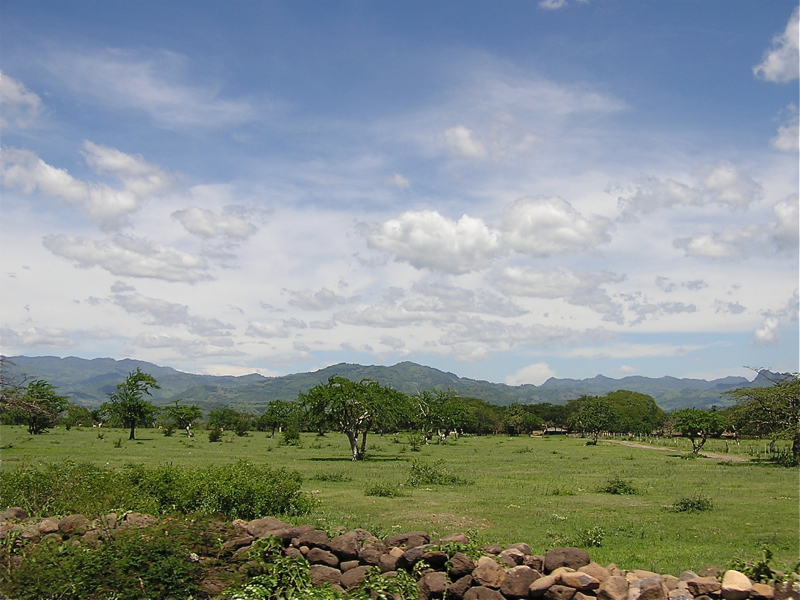 Rural Choluteca Department, Honduras, July 2004.